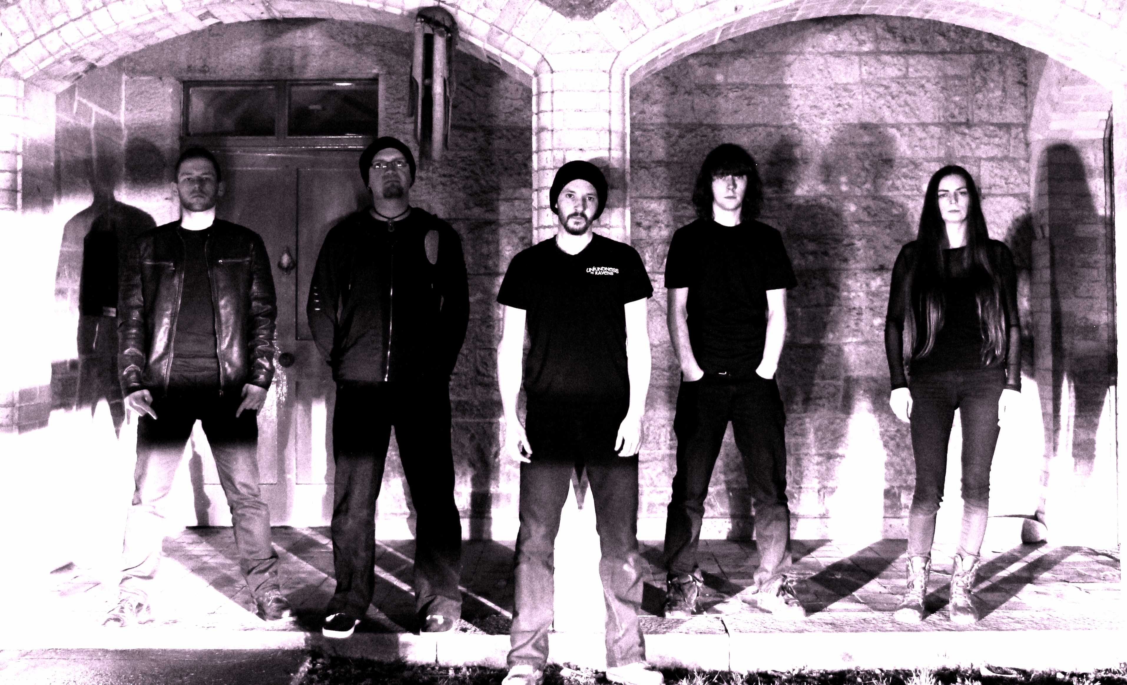 The band Unkindness Of Ravens pictured in March 2017. L- R : Shane Fitzgerald, Philly Brett, Darren Keegan, Daryl Hogan, Danielle Egan.